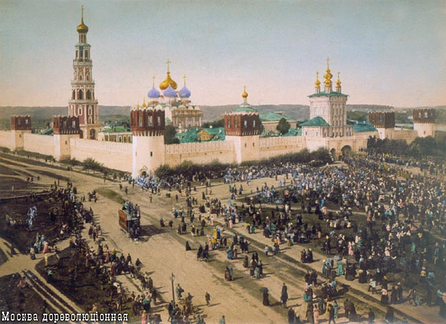 pre-revolutionary Russian postcard of Novodevichy Convent.